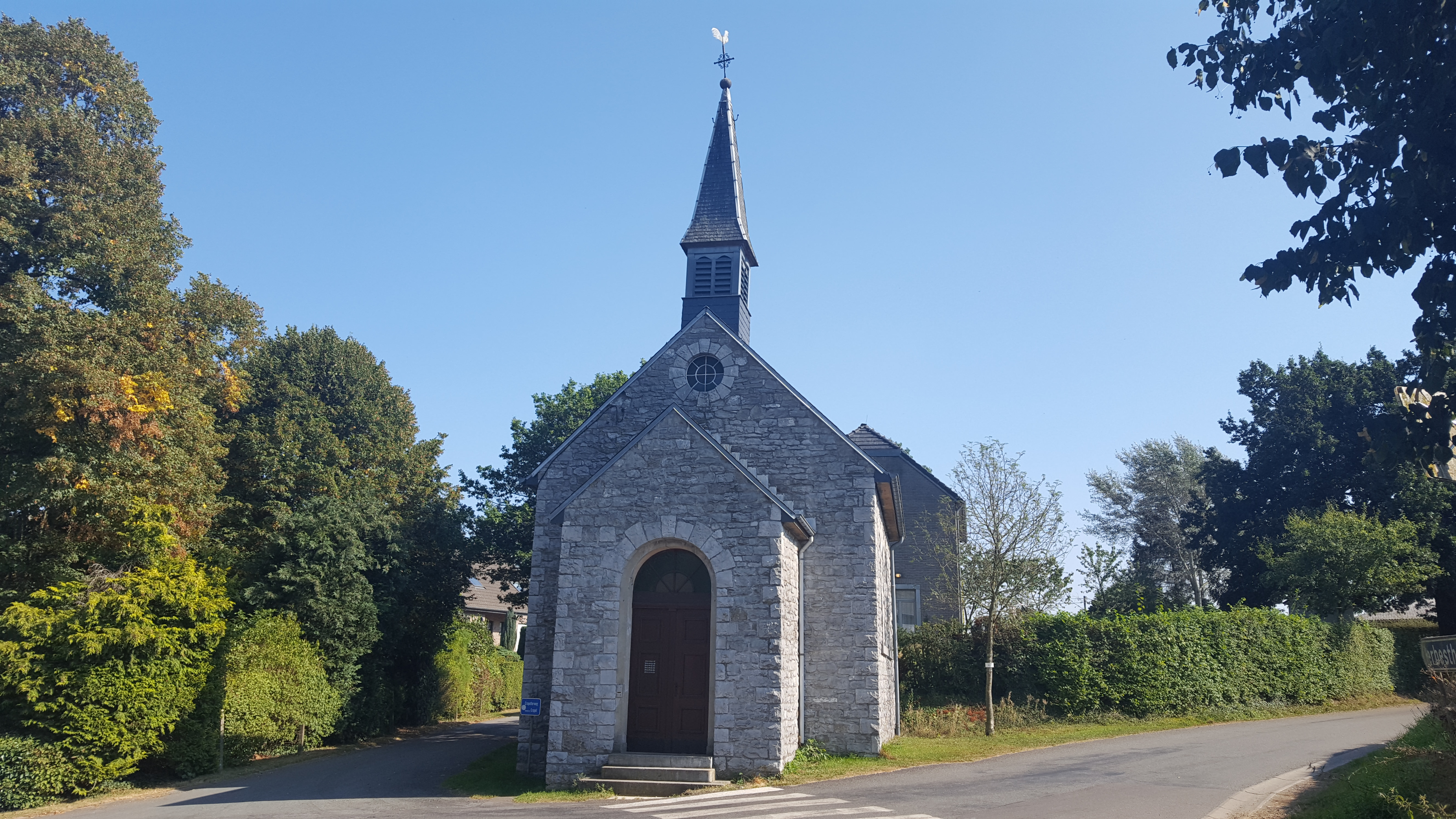 Chapel of Saint Quirinus, Rabotrath, Lontzen